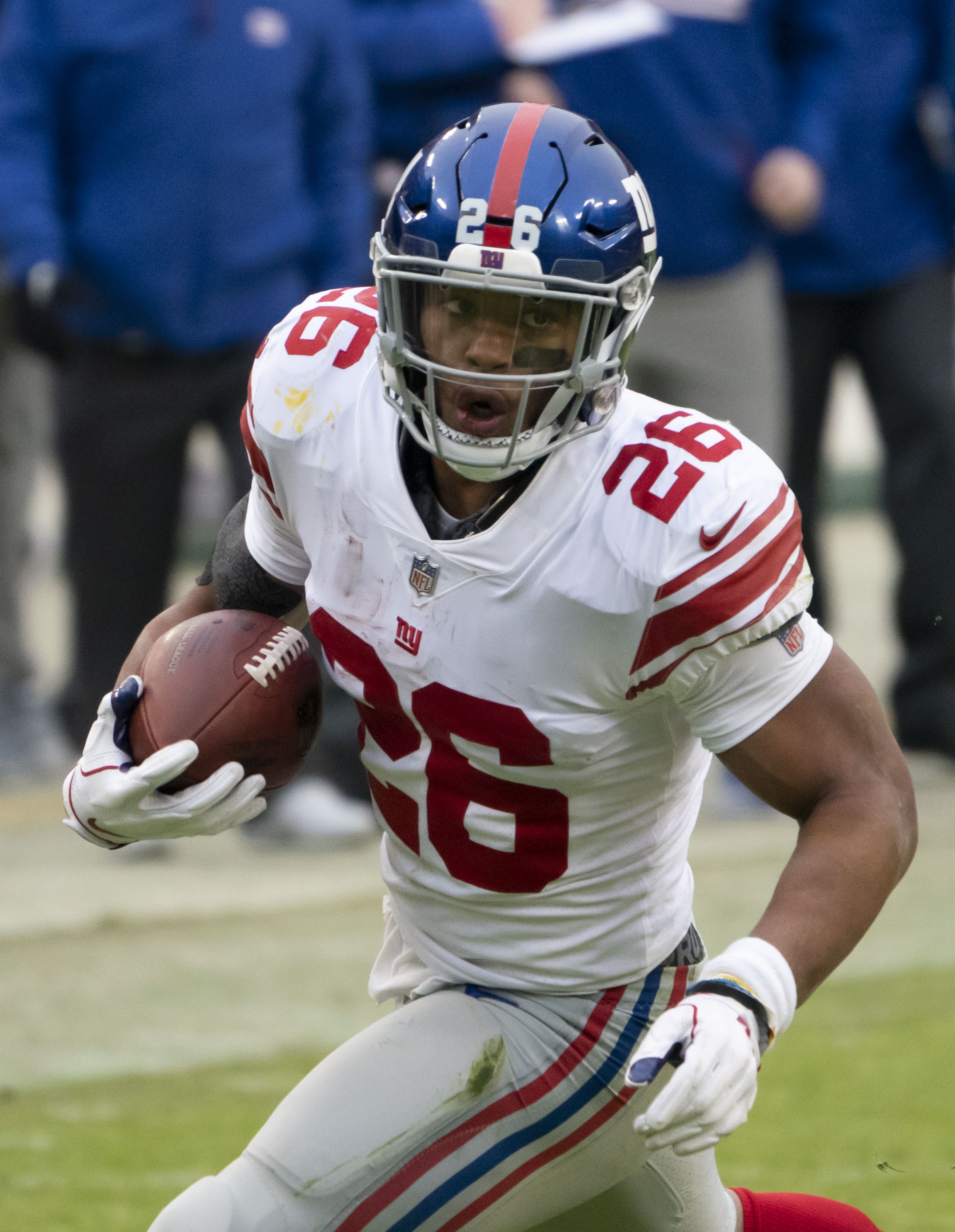 Running back Saquon Barkley of the New York Giants carries the ball in a game against the Washington Redskins at FedExField on December 9, 2018 in Landover, Maryland.